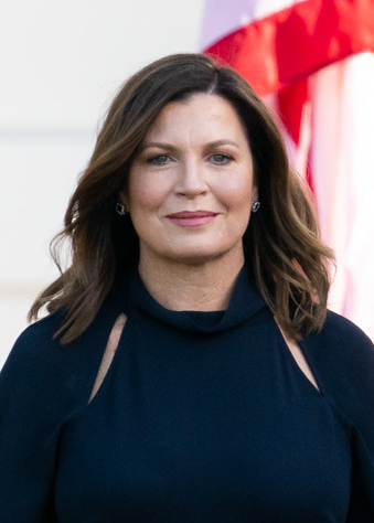 First Lady Melania Trump and Mrs. Jenny Morrison, wife of Australian Prime Minister Scott Morrison, participate in the Official State Arrival Ceremony Friday, Sept. 20, 2019, on the South Lawn of the White House. (Official White House Photo by Andrea Hanks)